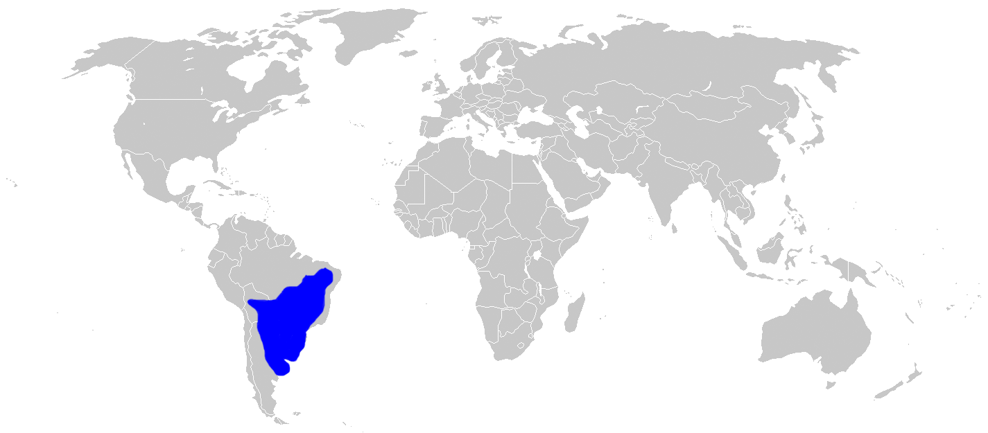 Range of Patagioenas picazuro in blue.